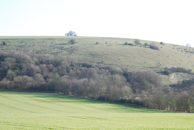 No Fovant Badge According to the map, there should be a badge here. This is a few miles east of the main Fovant Badges site. The missing badge was an outline of Australia and Tasmania carved into the chalk with the word Australia carved across the centre. The outline can still be discerned when walking the site. On this photograph, the badge lay to the left of the 'horizon tree', on the rough area of grassland between the fence and the wood below. With respect, from someone who has passed the badge on the A30 road thousands of times and visited the site of the badge several dozen times. The Australia badge is almost exactly in the centre of the picture, around the slighly shaded area in the grass and invisible from this angle. It is clearly visible on Google Maps, satellite view of this area. Richard Avery (talk) 11:34, 29 March 2018 (UTC)